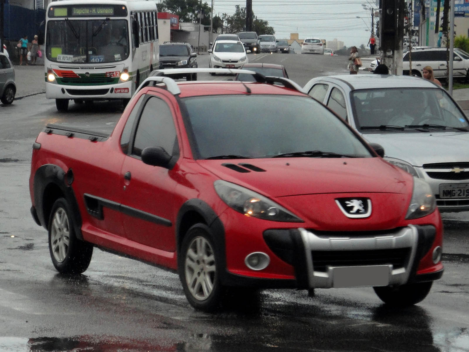 Peugeot Hoggar Escapade 1.6 Flex 16V 2012